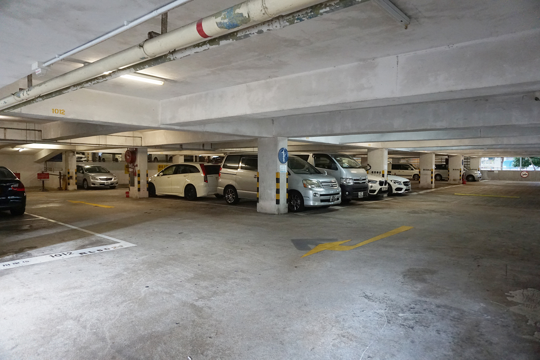 Tsz Man Estate in Tsz Wan Shan, Hong Kong.